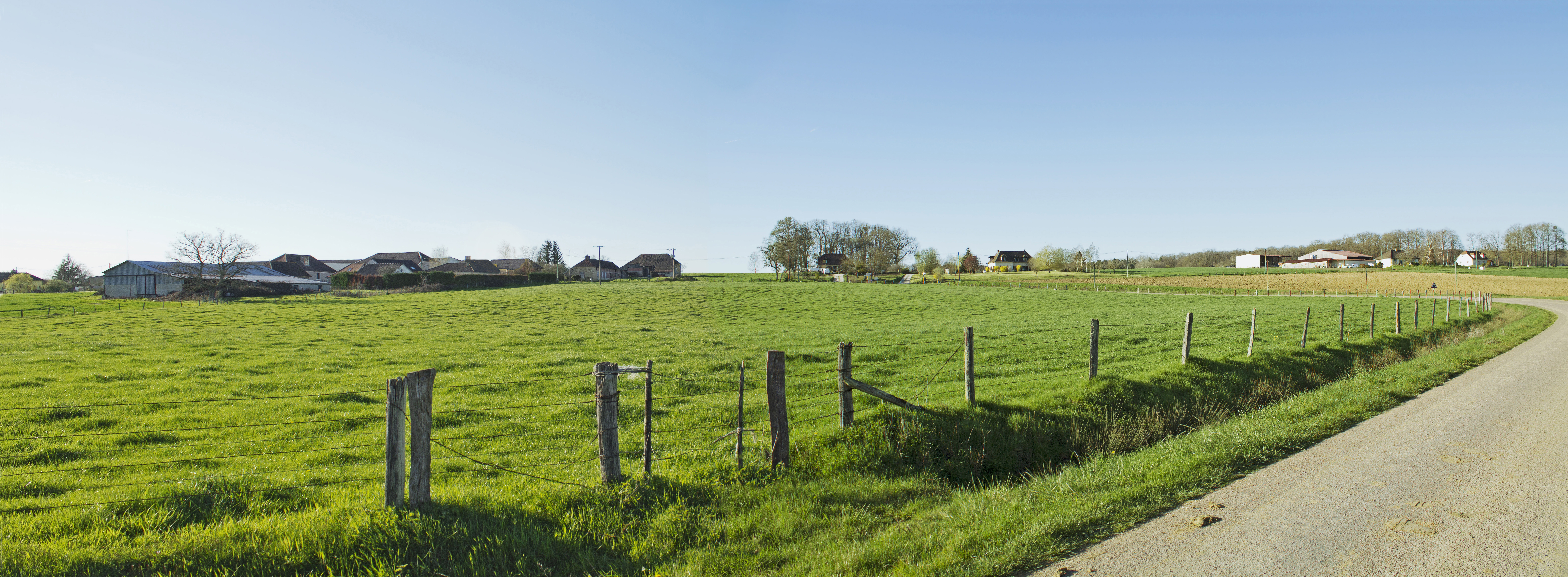 Champ-sur-Barse and farm Champ-Roy